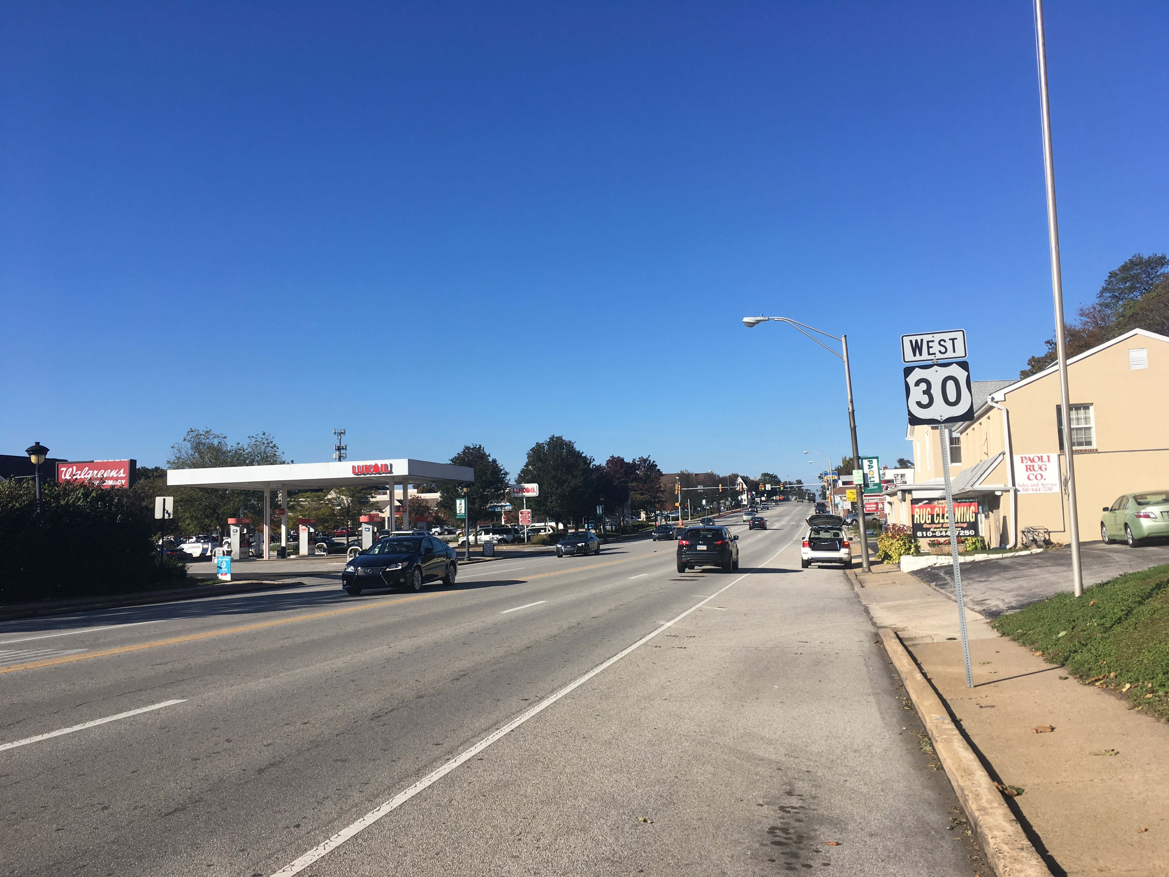 Westbound U.S. Route 30 (Lancaster Avenue) past the intersection with Pennsylvania Route 252 (Leopard Road/Bear Hill Road) in Paoli, Pennsylvania